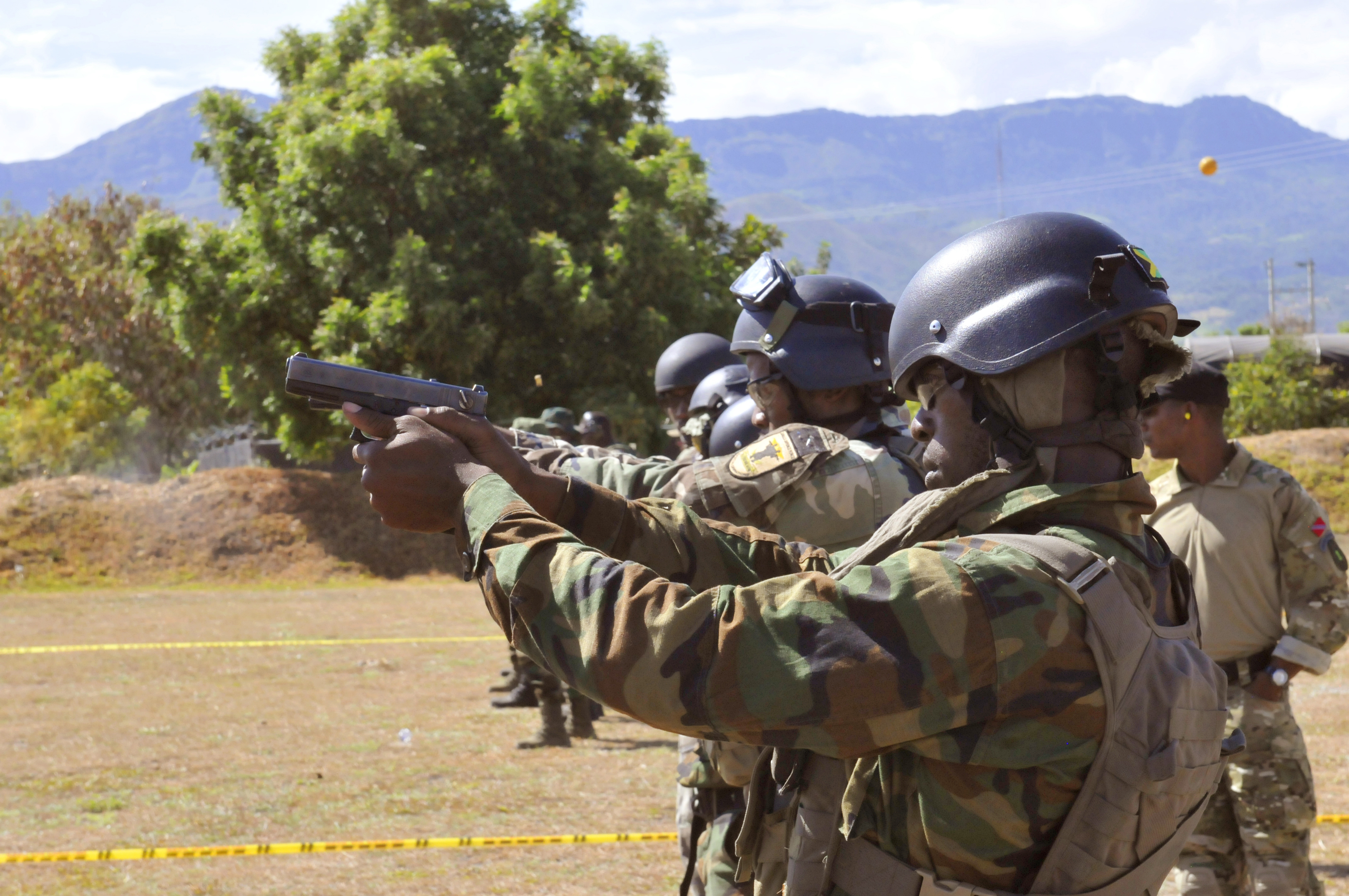 Members of the Jamaican team take aim with their pistols during a practice fire and zero in preparation for Fuerzas Comando 2014. The exercise is a U.S. SOUTHCOM-sponsored exercise conducted in Central and South America, and the Caribbean, since 2004. Unit: 16th Mobile Public Affairs Detachment DVIDS Tags: special operations forces; U.S. Southern Command; readiness; multinational cooperation; Fuerzas Comando 2014; special operations skills competition; fellowship program; training enhancement